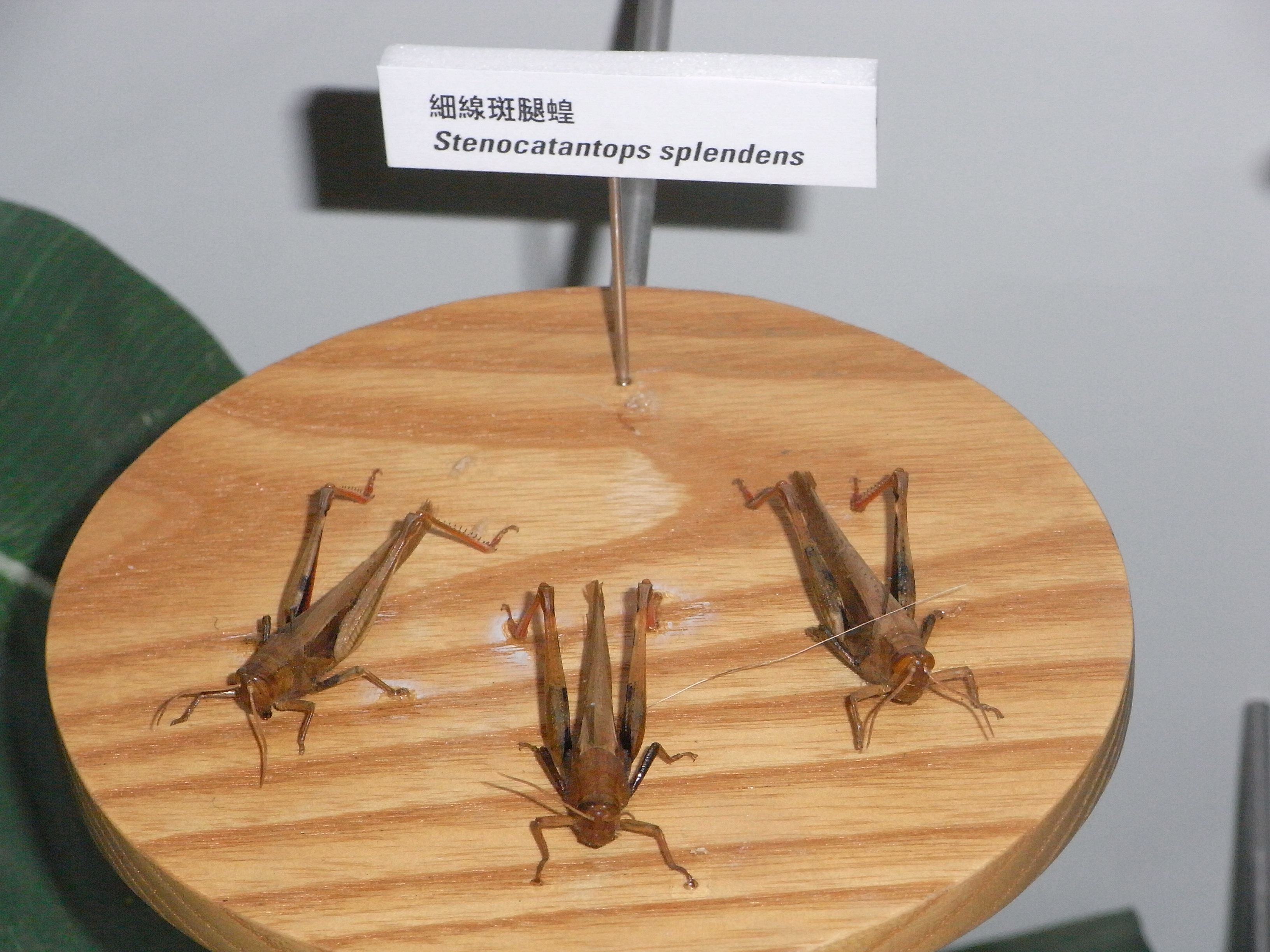 尖沙咀香港科學館 Food chain, 食物鏈標本 蝗蟲